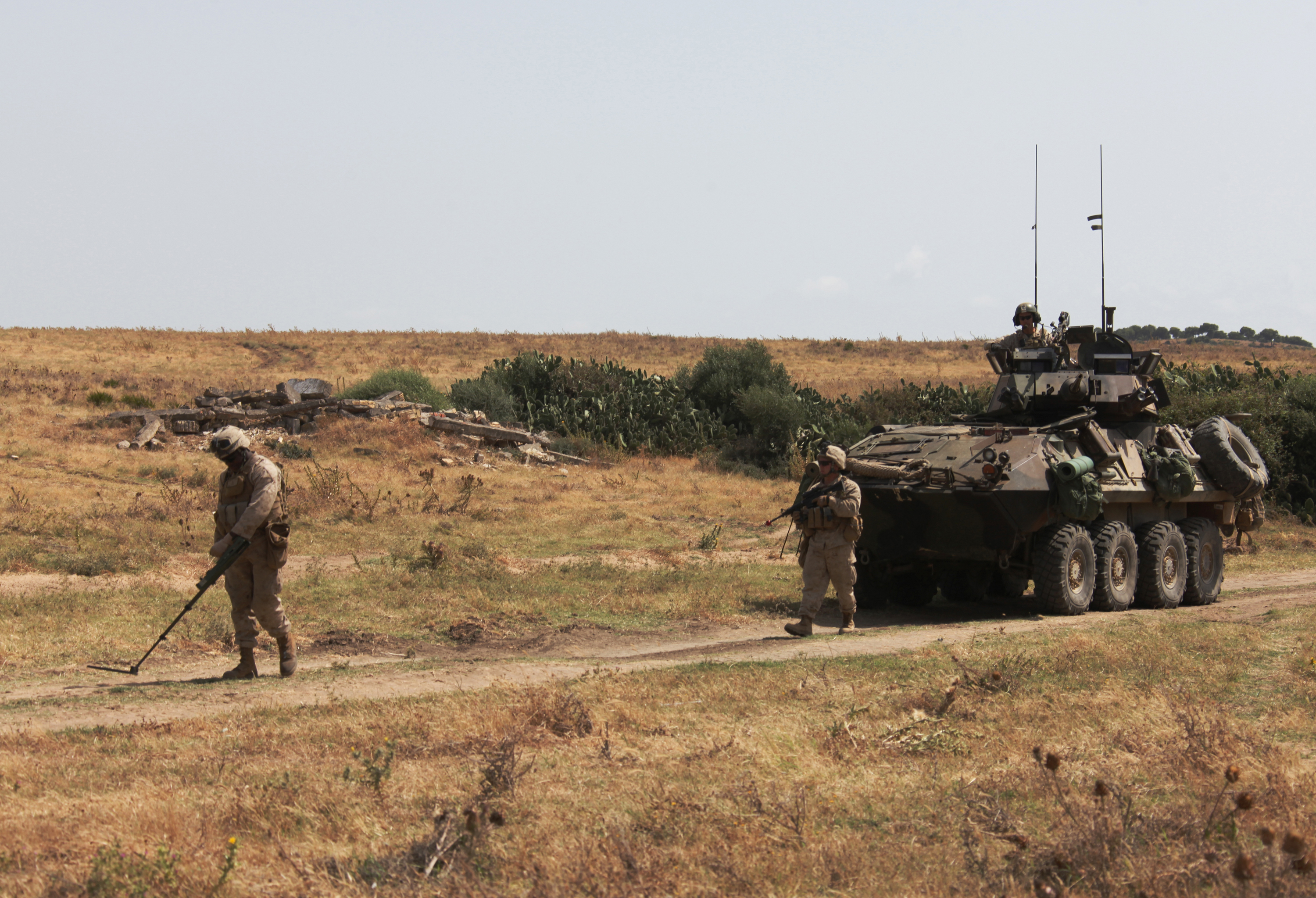 SIERRA DEL RETIN, Spain (June 23, 2011) U.S. Marines assigned to Light Armored Reconnaissance Platoon, Weapons Company, Battalion Landing Team, 2nd Battalion, 2nd Marine Regiment, 22nd Marine Expeditionary Unit, demonstrate immediate action drills for improvised explosive devices to Spanish Marines assigned to the Spain's Third Mechanized Landing Battalion. The training is part of the Spanish Amphibious Bilateral Exercise, a 10-day exercise intended to increase interoperability between U.S. and Spanish marines. (U.S. Marine Corps photo by Cpl. Dwight Henderson/Released)